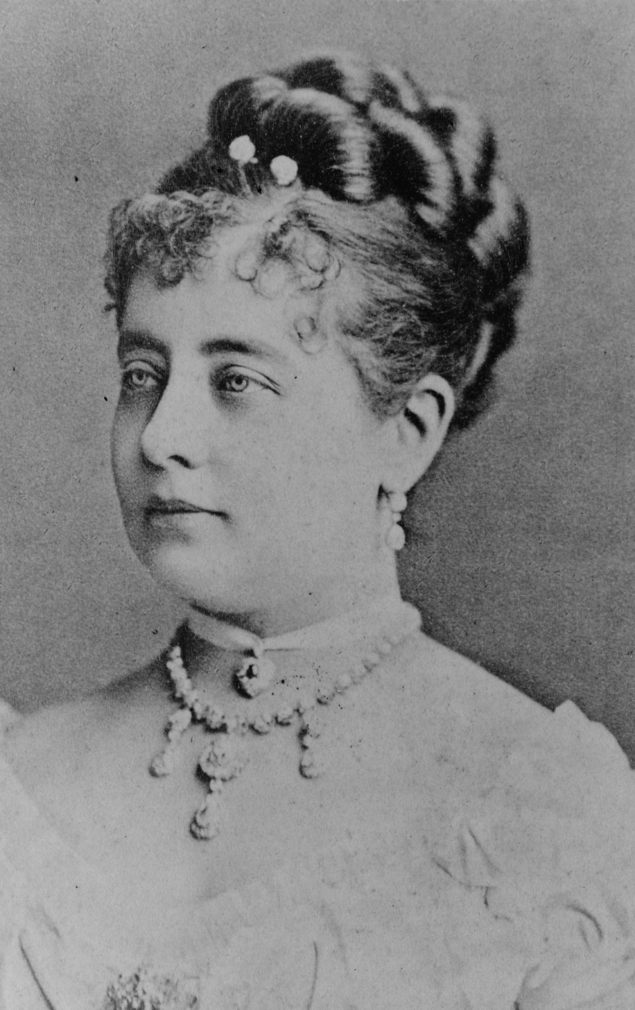 Photograph shows opera singer Pauline Lucca, head-and-shoulders portrait, facing left.